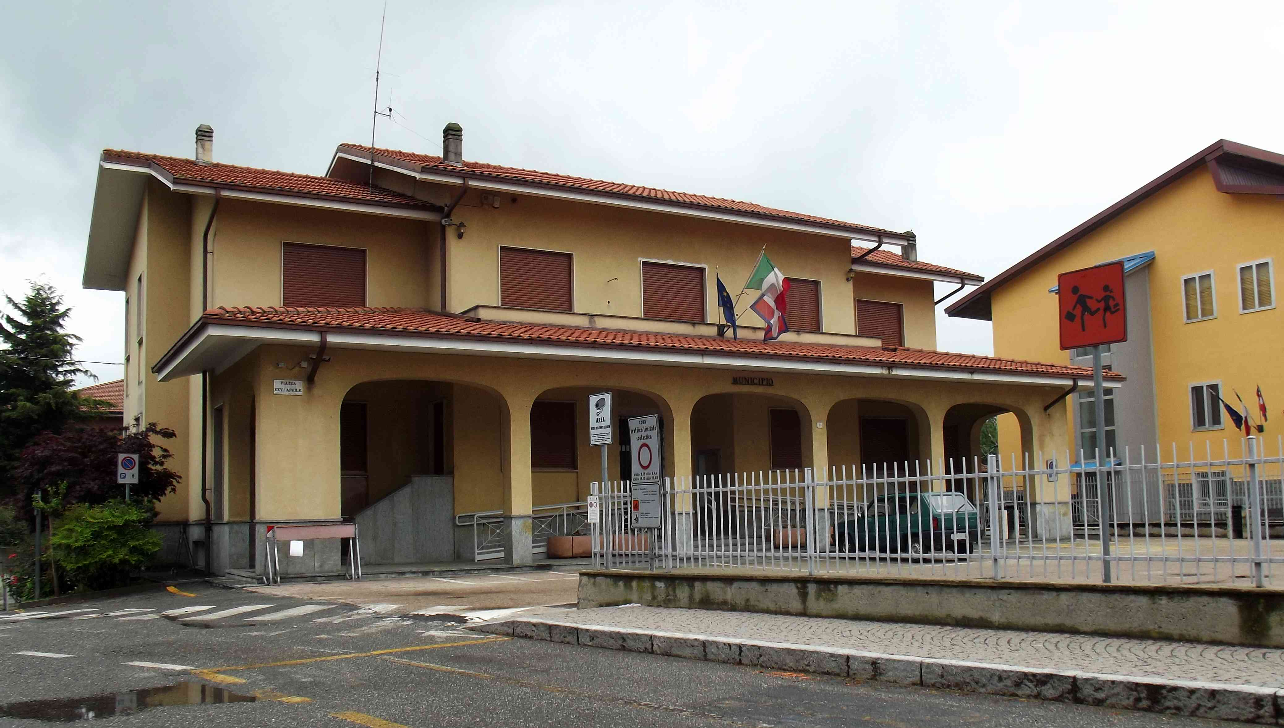 La Cassa (TO, Italy): town hall